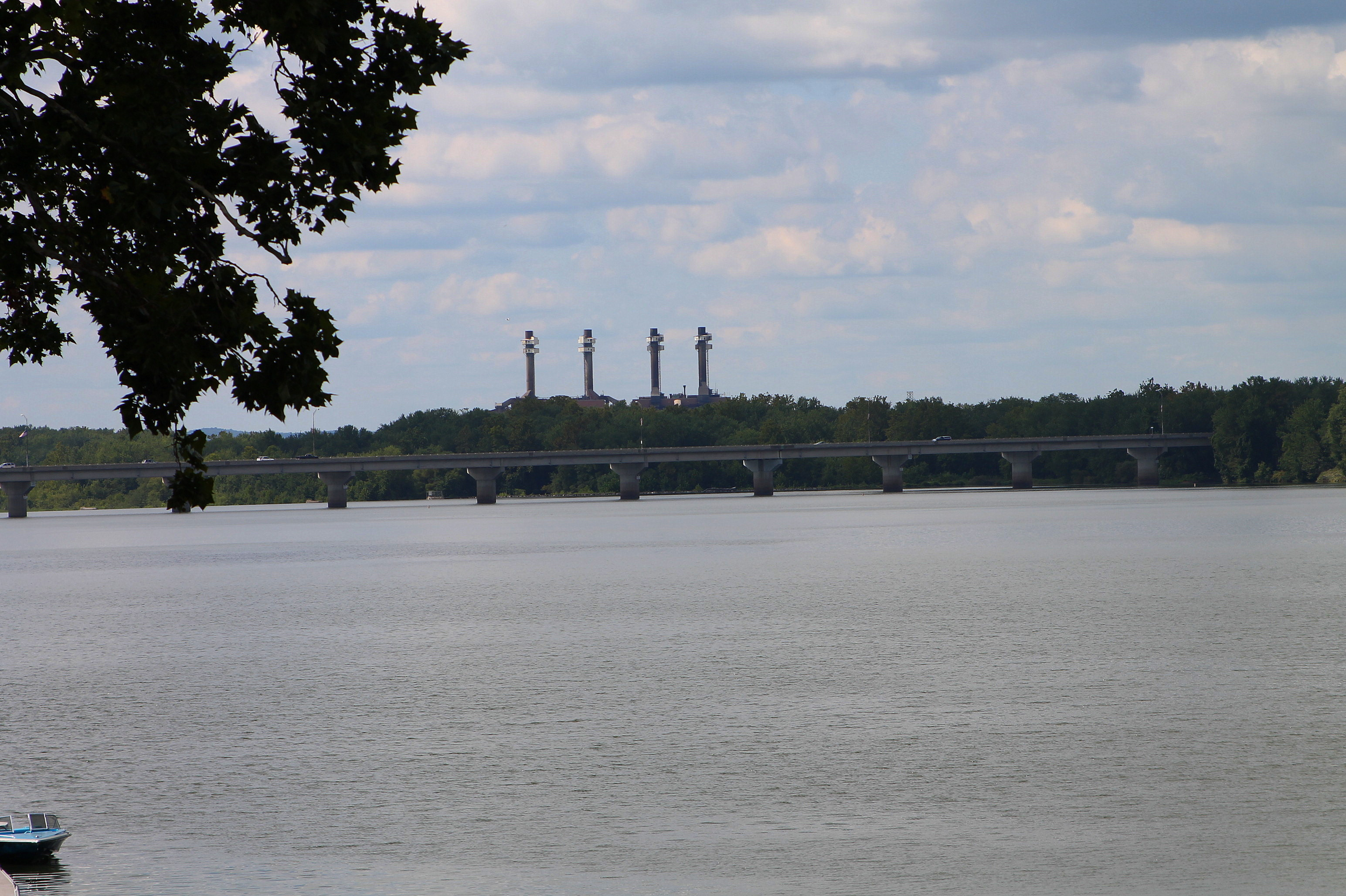 Pennsylvania Route 61 bridge over the Susquehanna River